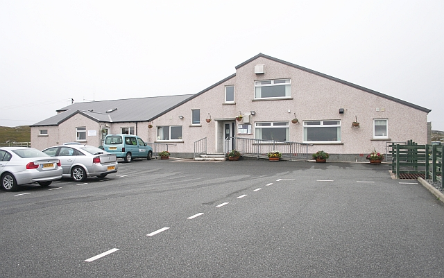 Great Bernera Community Centre, Outer Hebrides The community centre also houses a Museum and a most welcoming cafe. It has had two stages of redevelopment recently. On the 28th July 1995 the "new" facilities were opened by Comte Robin de Lalane Mirlees. Phase 2 was then opened on the 25th May 2001 by Catriona Maclennan.